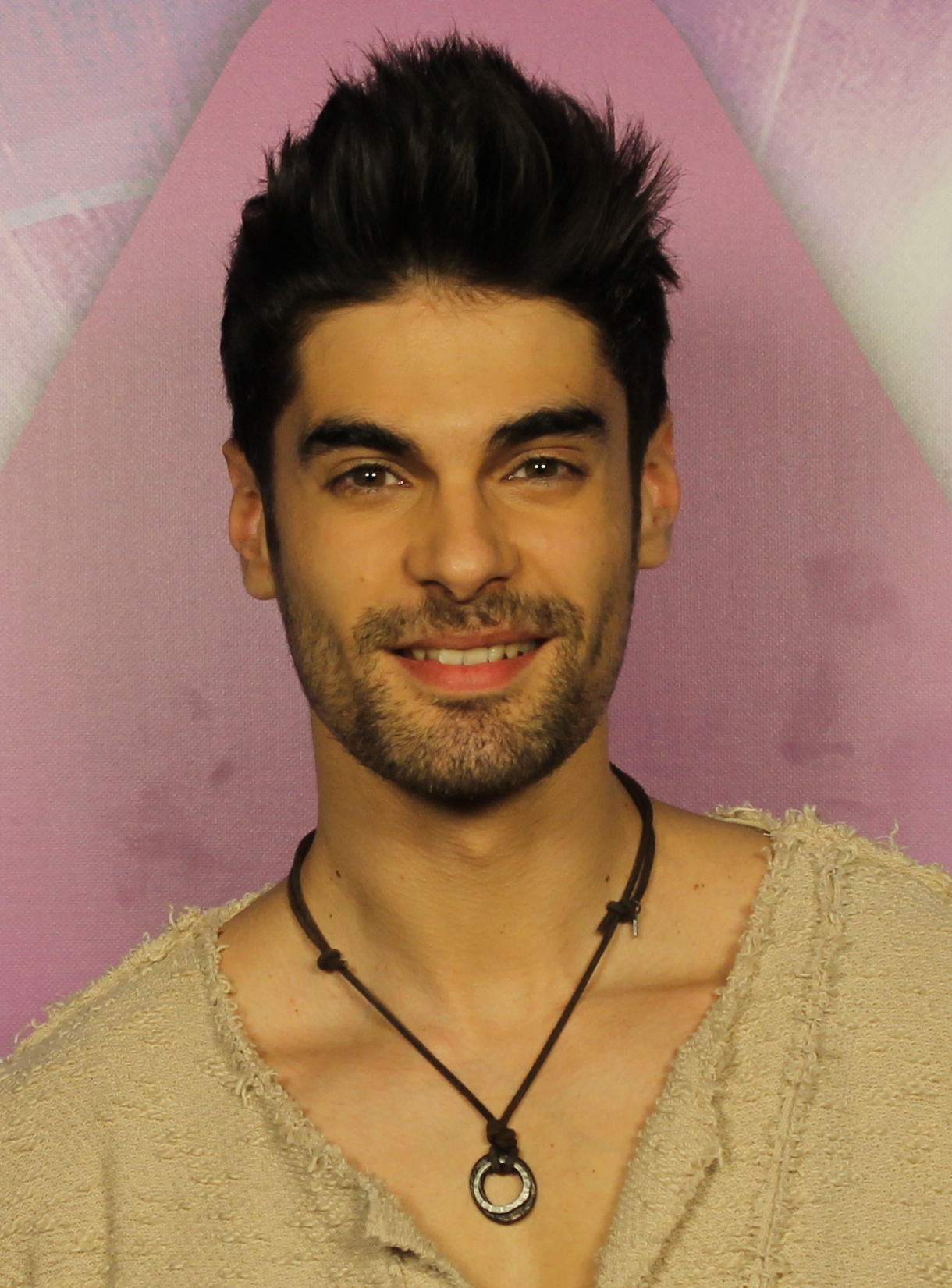 A Dal 2016 finalist and winner: Freddie